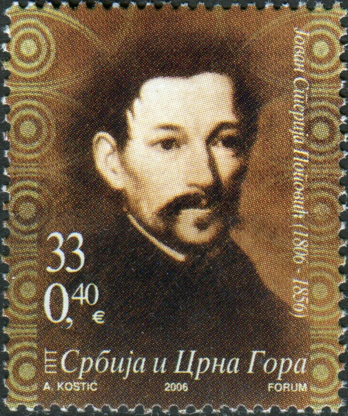 200th Anniversary of the Birth & 150th Anniversary of the Death of Jovan Sterija Popovic